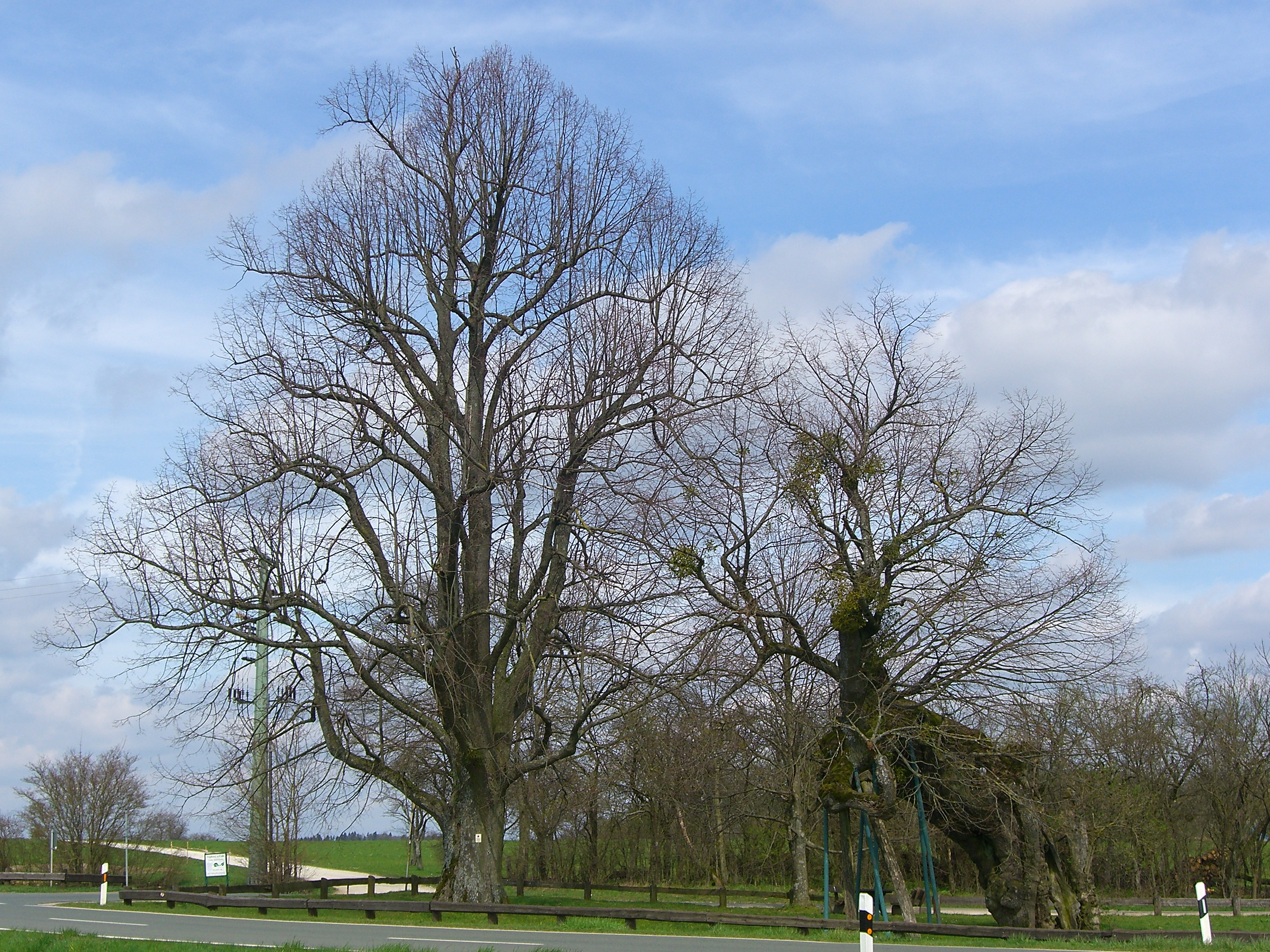 The leaveless old and new Kasberg lime tree (Kasberg is a small village near Gräfenberg, Germany) in spring 2007.